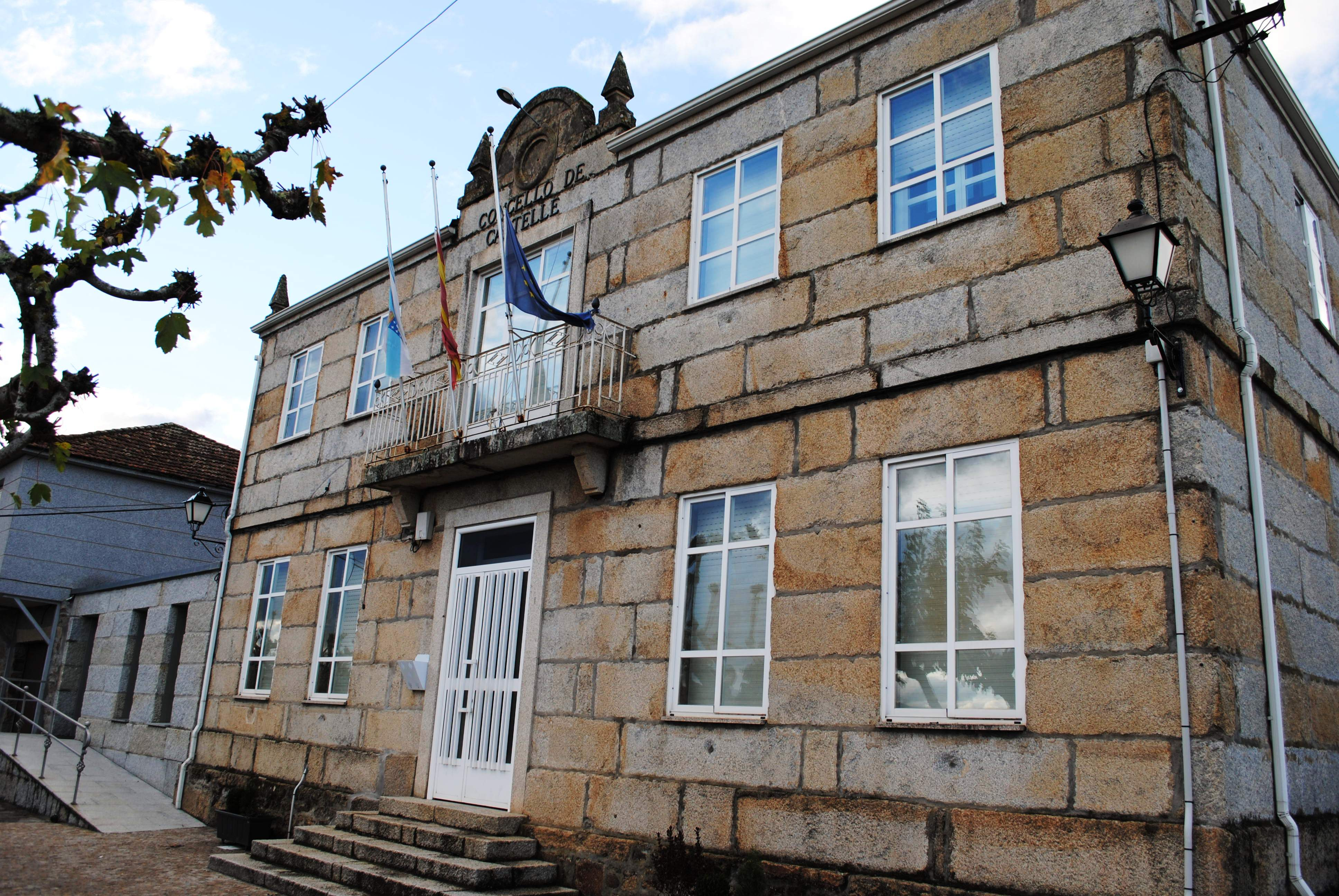 See title.